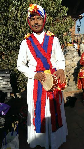 छलिया नृत्यमा लगाउने पोषाक